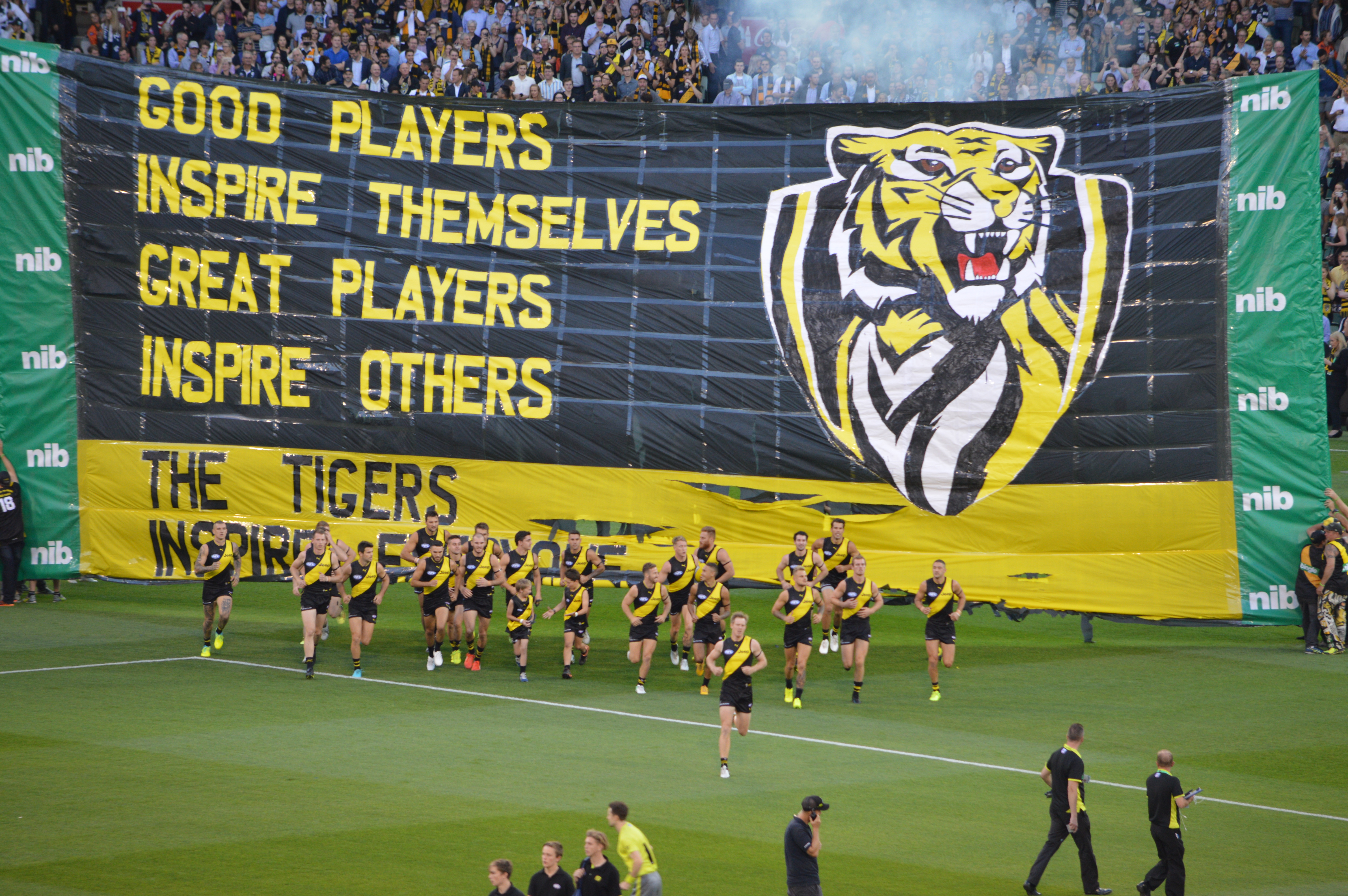 Richmond's players enter the ground during the round 1, 2018 AFL match between Richmond and Carlton